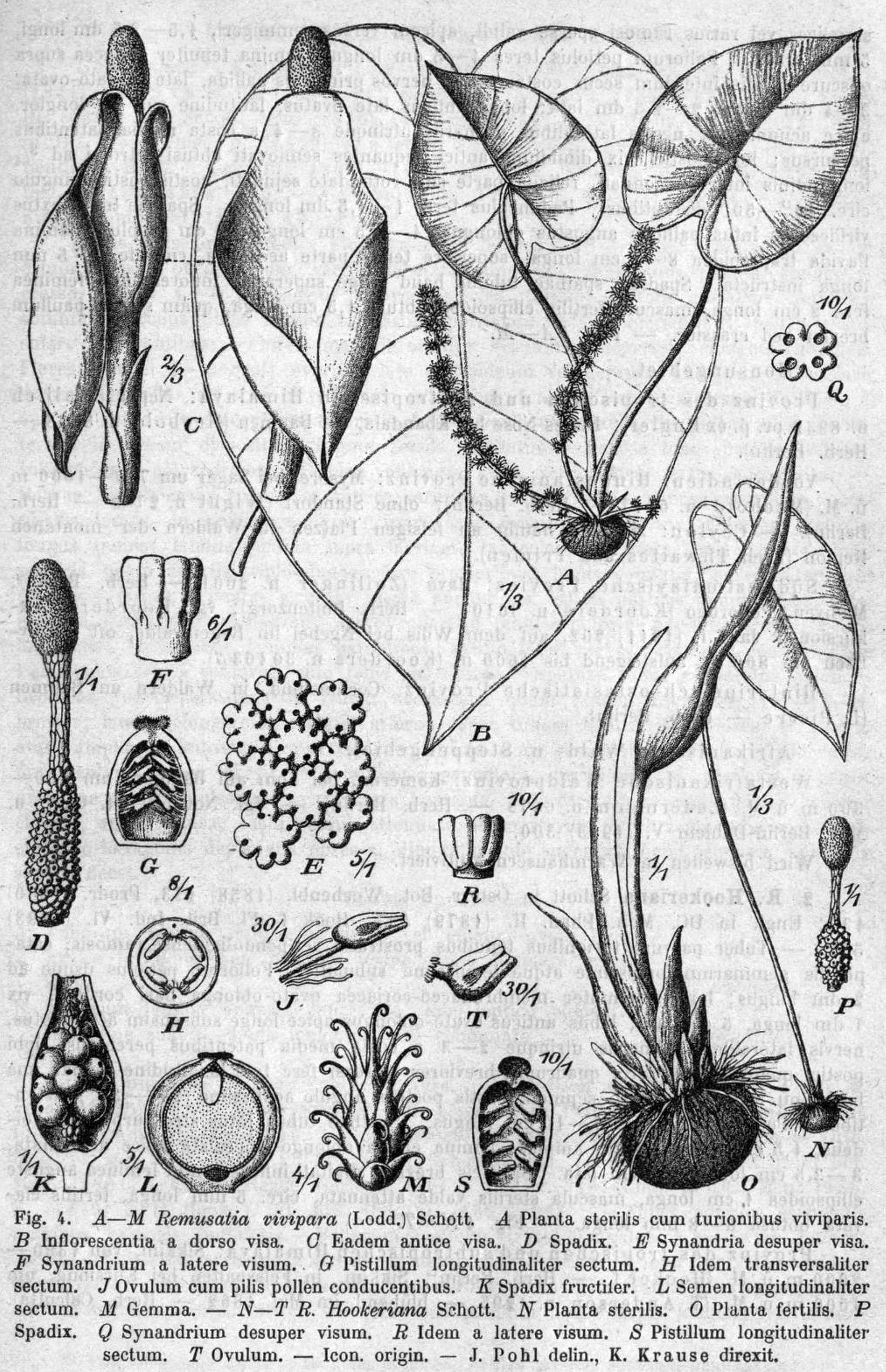 Remusatia vivipara botanical drawing from Das Pflanzenreich